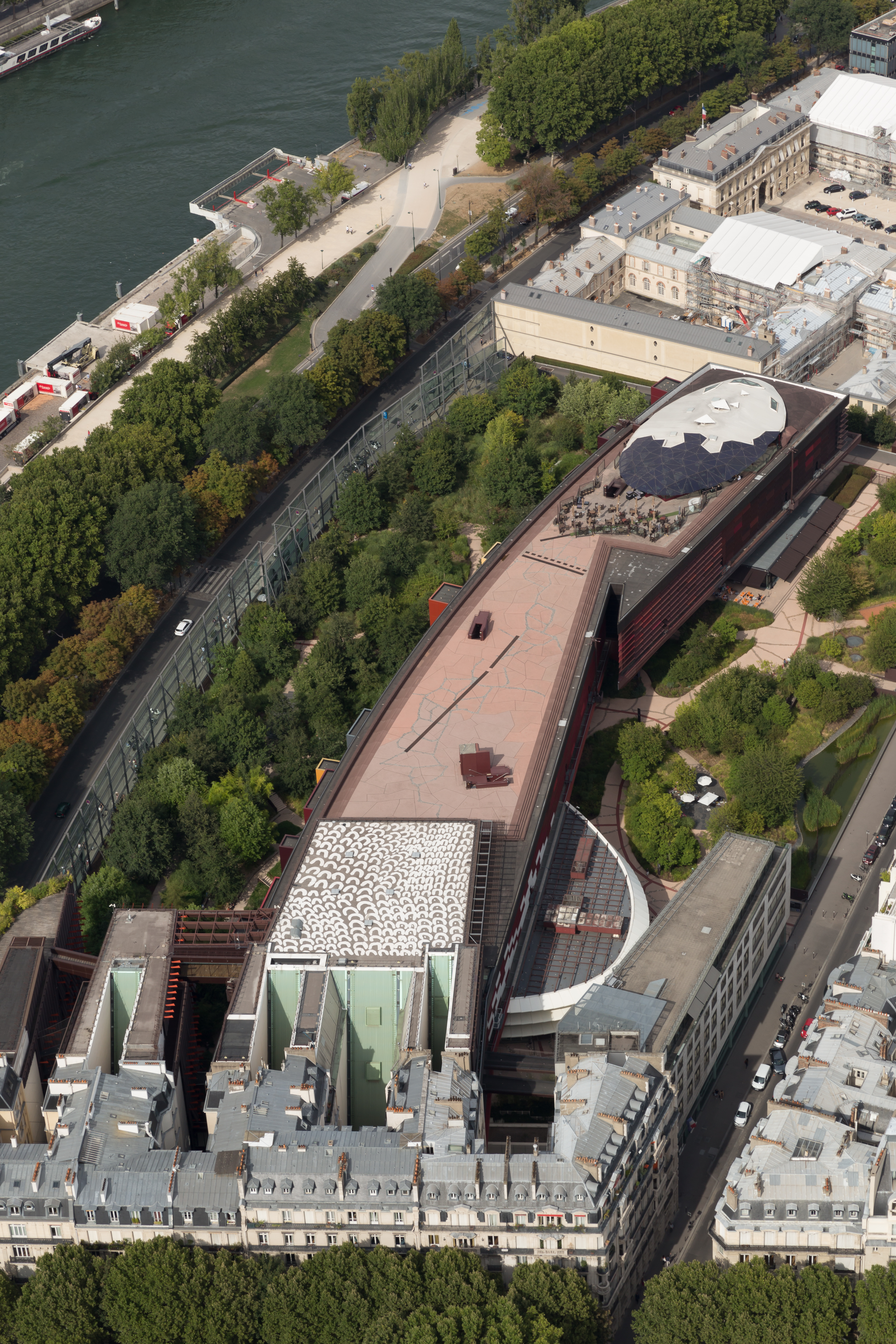 Southwest view of the musée du quai Branly in Paris.